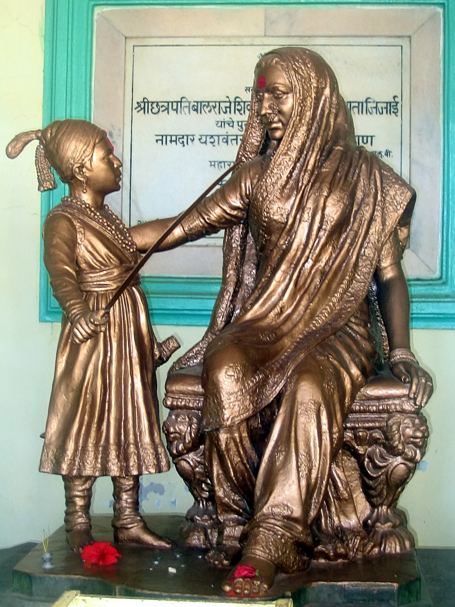 The inspiring statue of young Maharaj with Jija mata on top of Shivneri (as far as i can remember)